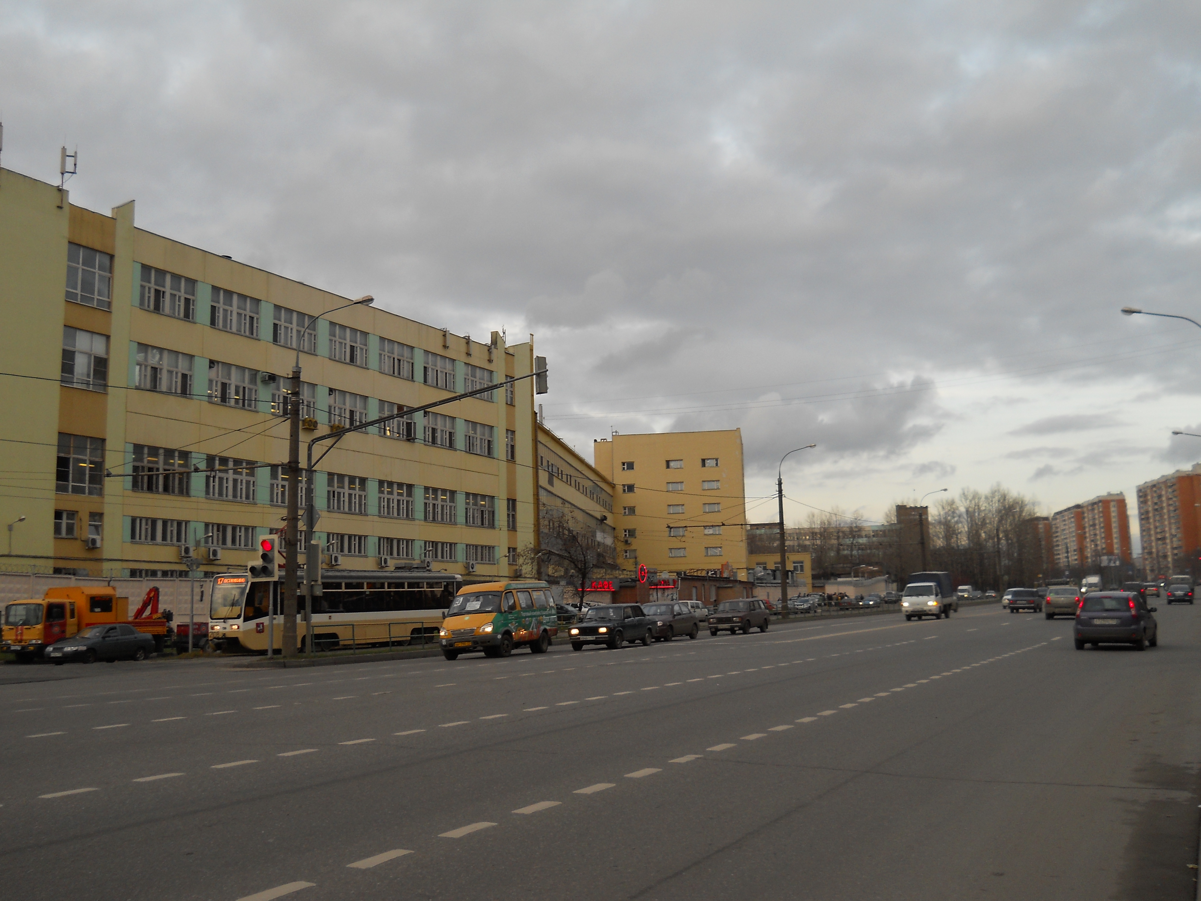 Polyarnaya street, 29, Moscow, Russia